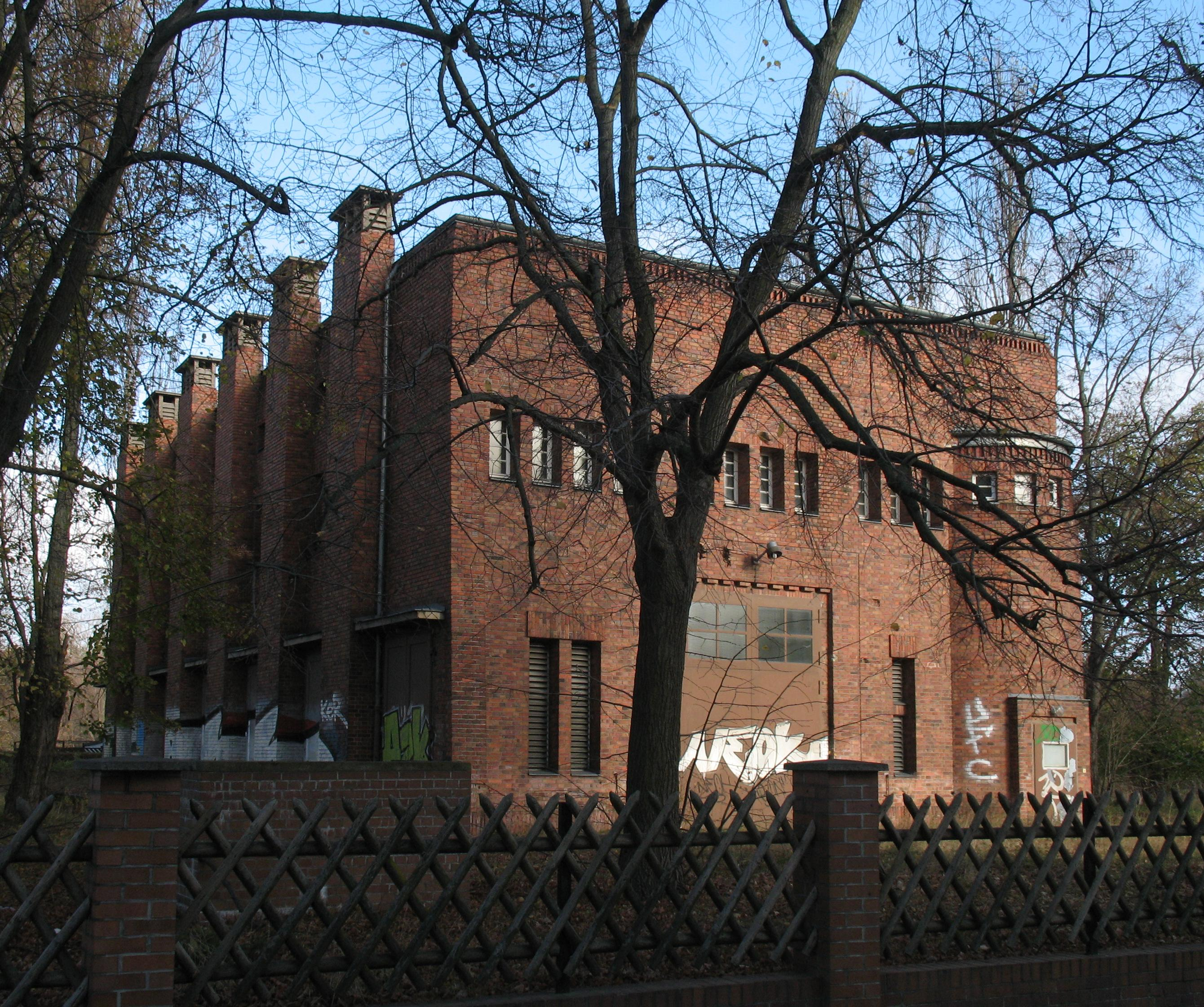 Former rectifier factory in Hennigsdorf in Brandenburg, Germany